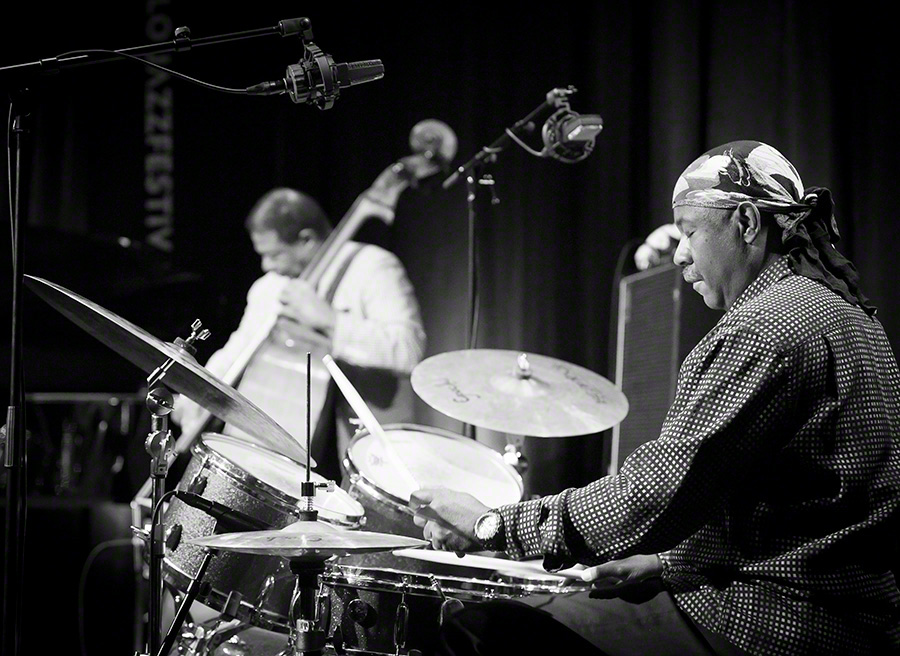 Lenny White performs with Chestnut, Williams & White at the stage of Nasjonal Jazzscene Victoria. The concert was part of the Oslo Jazz Festival in Norway and took place on 14. August 2016. The super trio played at the first night of the festival. They have coorperated since 2015 and released one album, ”Natural Essence”.Lineup: Cyrus Chestnut (piano), Buster Williams (double bass), Lenny White (drums)